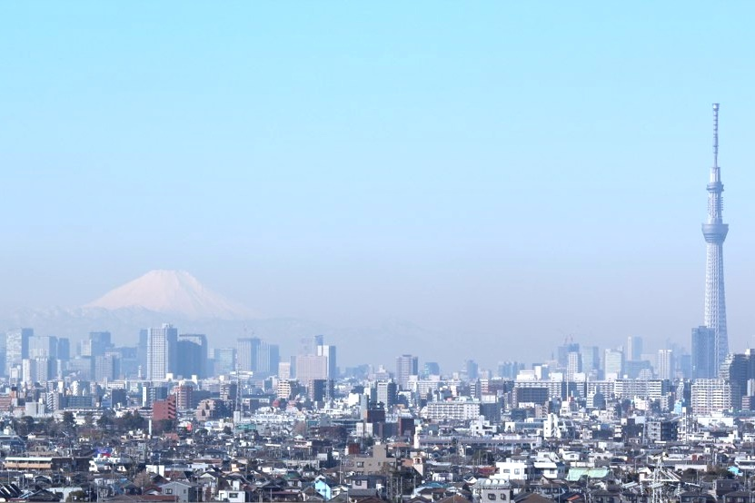 Mt.Fuji & Tokyo SkyTree - viewed from a building in Ichikawa, Chiba (most likely, close but not from I-link town Ichikawa)